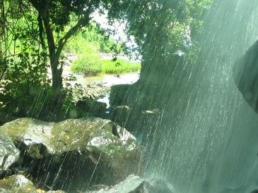 Waterfalls_in_the_rainforest_of_Moheli, Comoros